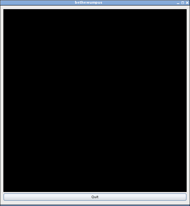 Be The Wumpus